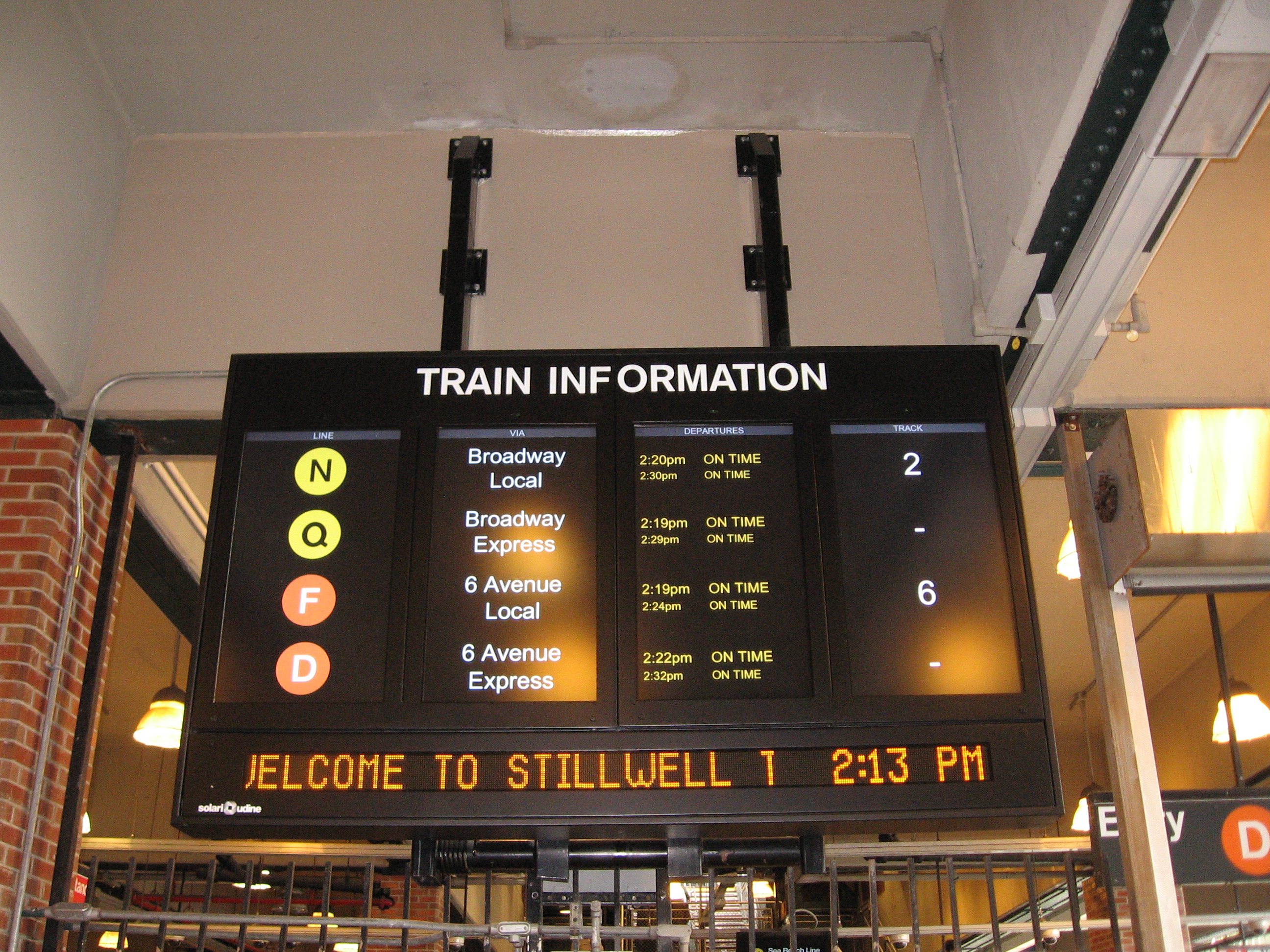 Departure board in Coney Island Stillwell Avenue station showing the next departures of D, F, N and Q services.